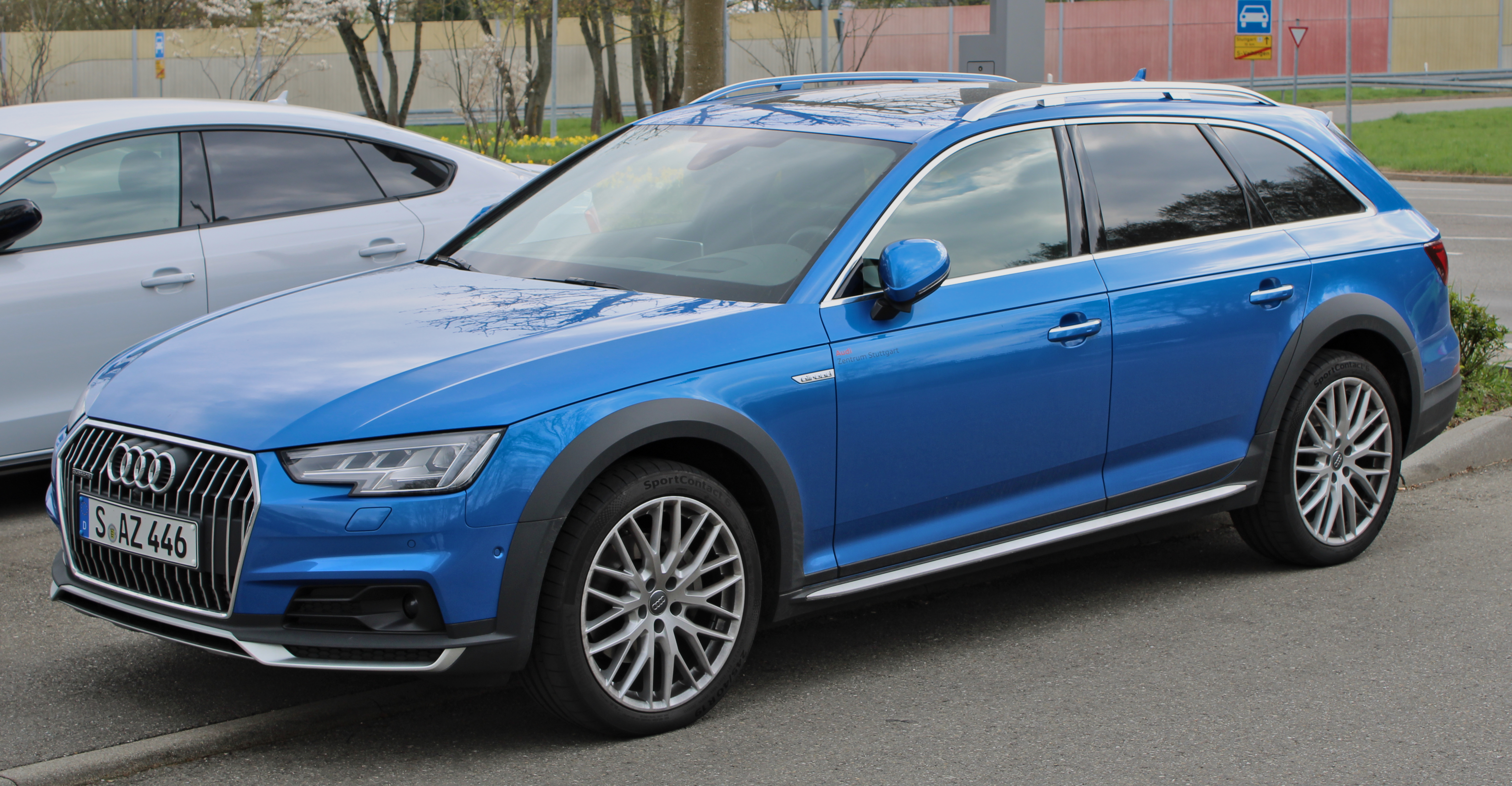 Audi A4 Allroad in Stuttgart-Vaihingen